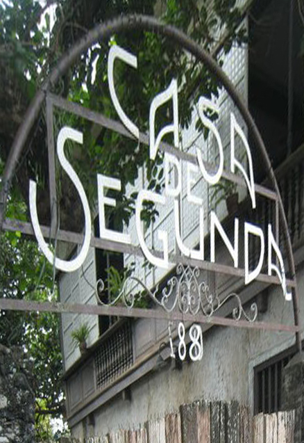 The Luz-Katigbak House also known as Casa Segunda in Lipa City, Batangas province in the Philippines is an ancestral house built in the 1880s by Segunda Katigbak and her husband Manuel Metra Luz.